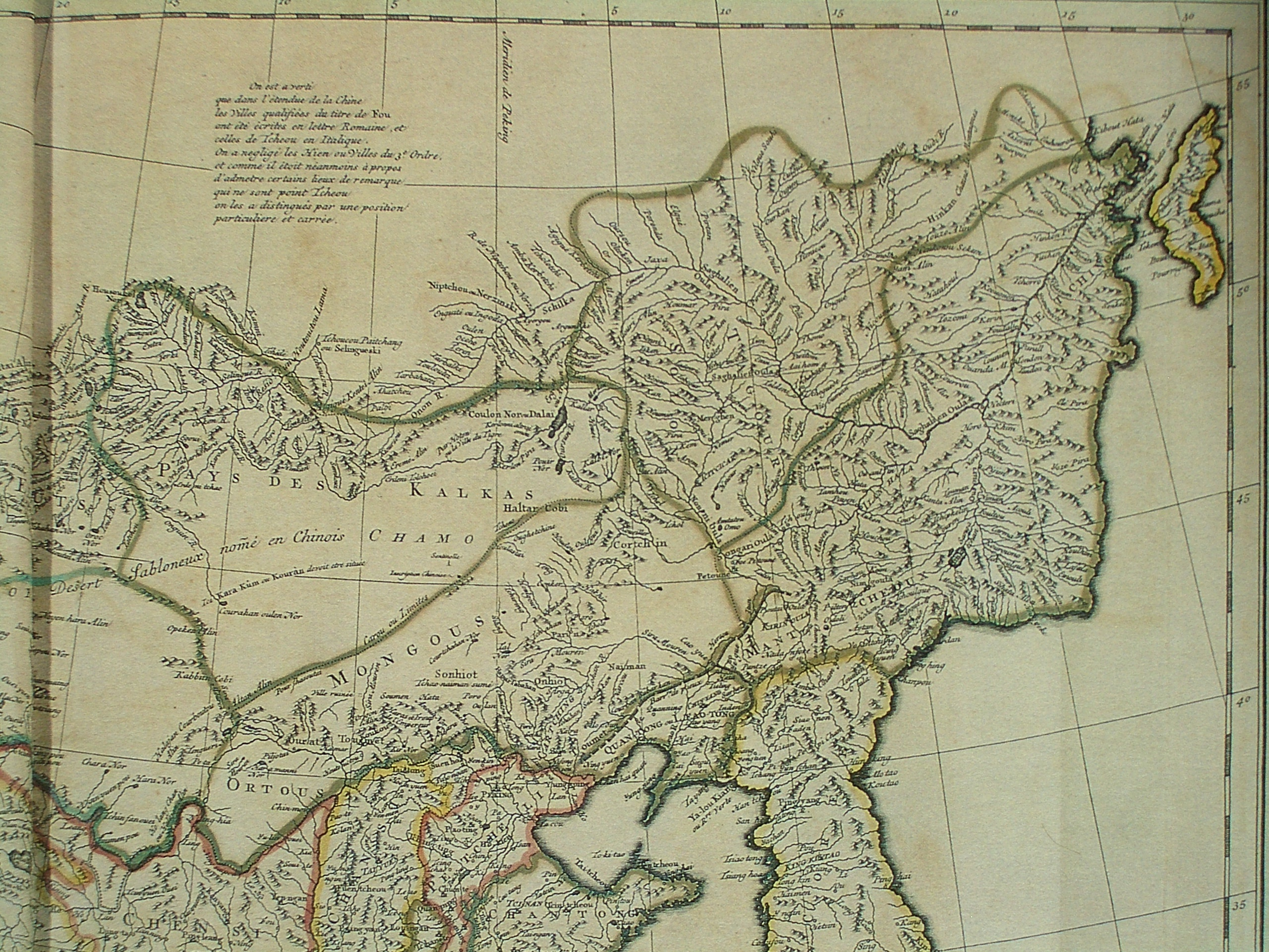 A most general map, including China, Chinese Tartary, and Tibet, based on individual maps of the Jesuit fathers. The map gives 1734 as the year, but the modern HKUST publishers say 1737